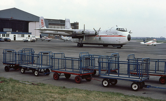 An Armstrong Whitworth Argosy belonging to Air Bridge Carriers parked on the tarmac at the old Liverpool Airport. The hangar on the left has long since disappeared whilst the building behind has been refurbished. The Argosy, G-BEOZ, was withdrawn from service in 1987 and is currently on display at the East Midlands Airport Aeropark. For more information see the Wikipedia articles Armstrong Whitworth AW.660 Argosy or Liverpool John Lennon Airport.